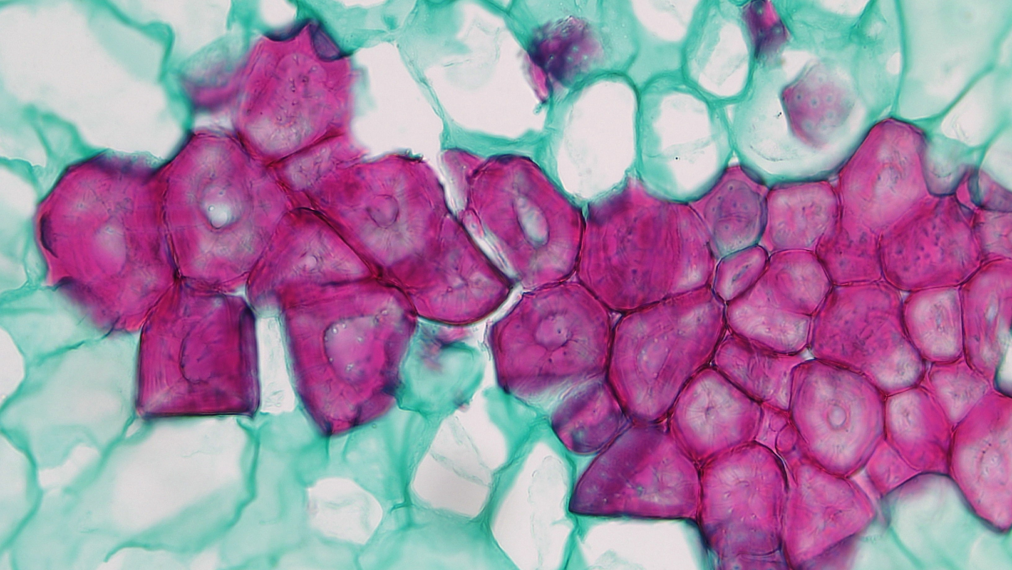 Stone cells in Pyrus pear magnification: 400x Berkshire Community College Bioscience Image Library Bundles of stone cells, or sclereids, are highly lignified sclerenchyma cells that produce the gritty texture fruits the pear, Pyrus. The multilayered cells walls fill most of the volume in these dead cells.